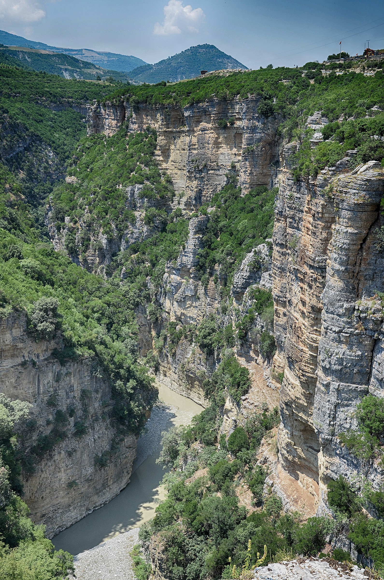 Osum Canyon, Skrapar, Albania